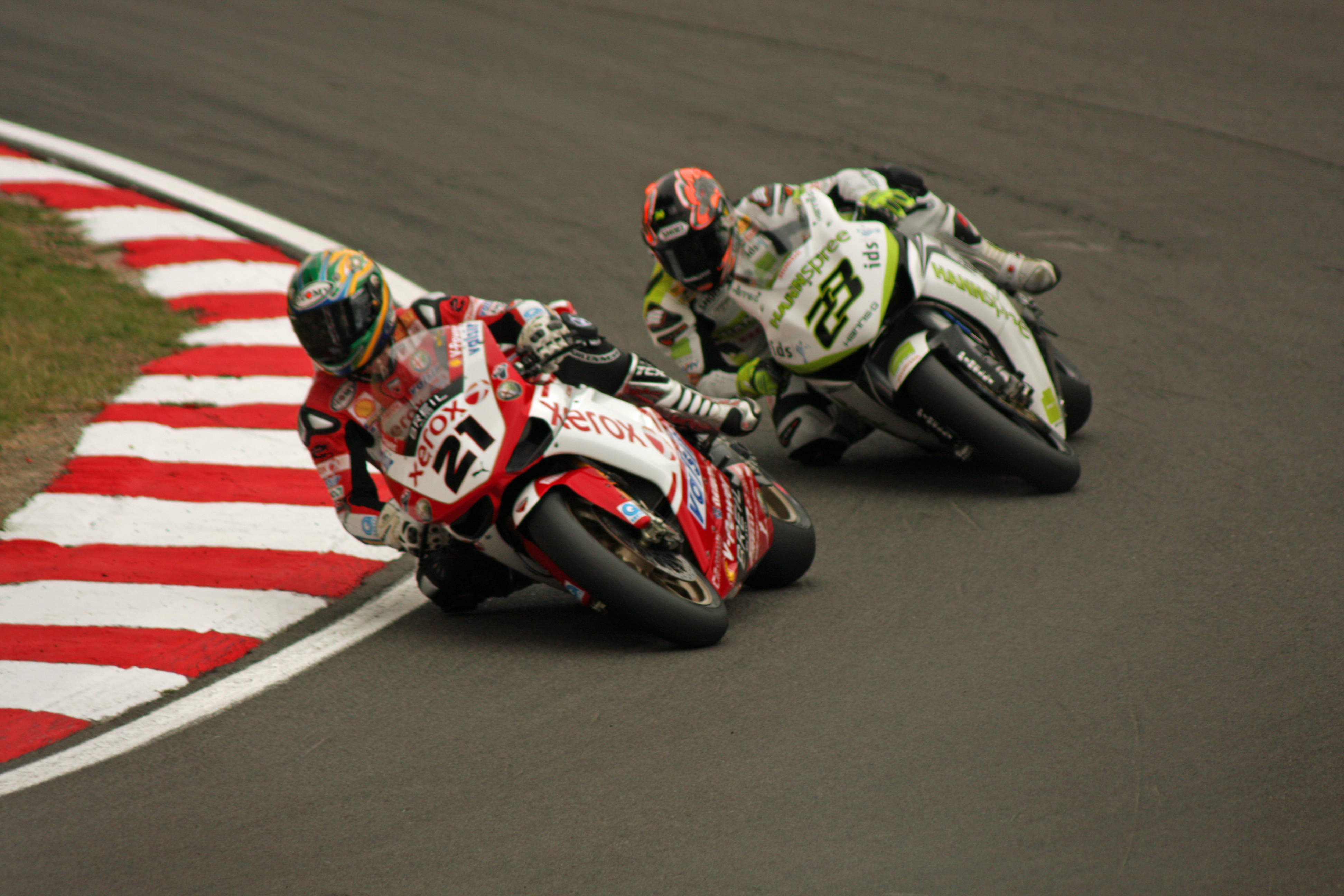 Brands Hatch (West Kingsdown, Kent, England), Brands Hatch Circuit, August 2, 2008. 2008 Superbike World Championship, Round 10, Qualifying Day: #21 Troy Bayliss' Xerox Ducati 1098 F08 and #23 Ryuichi Kiyonari's Hannspree Ten Kate Honda CBR1000RR.